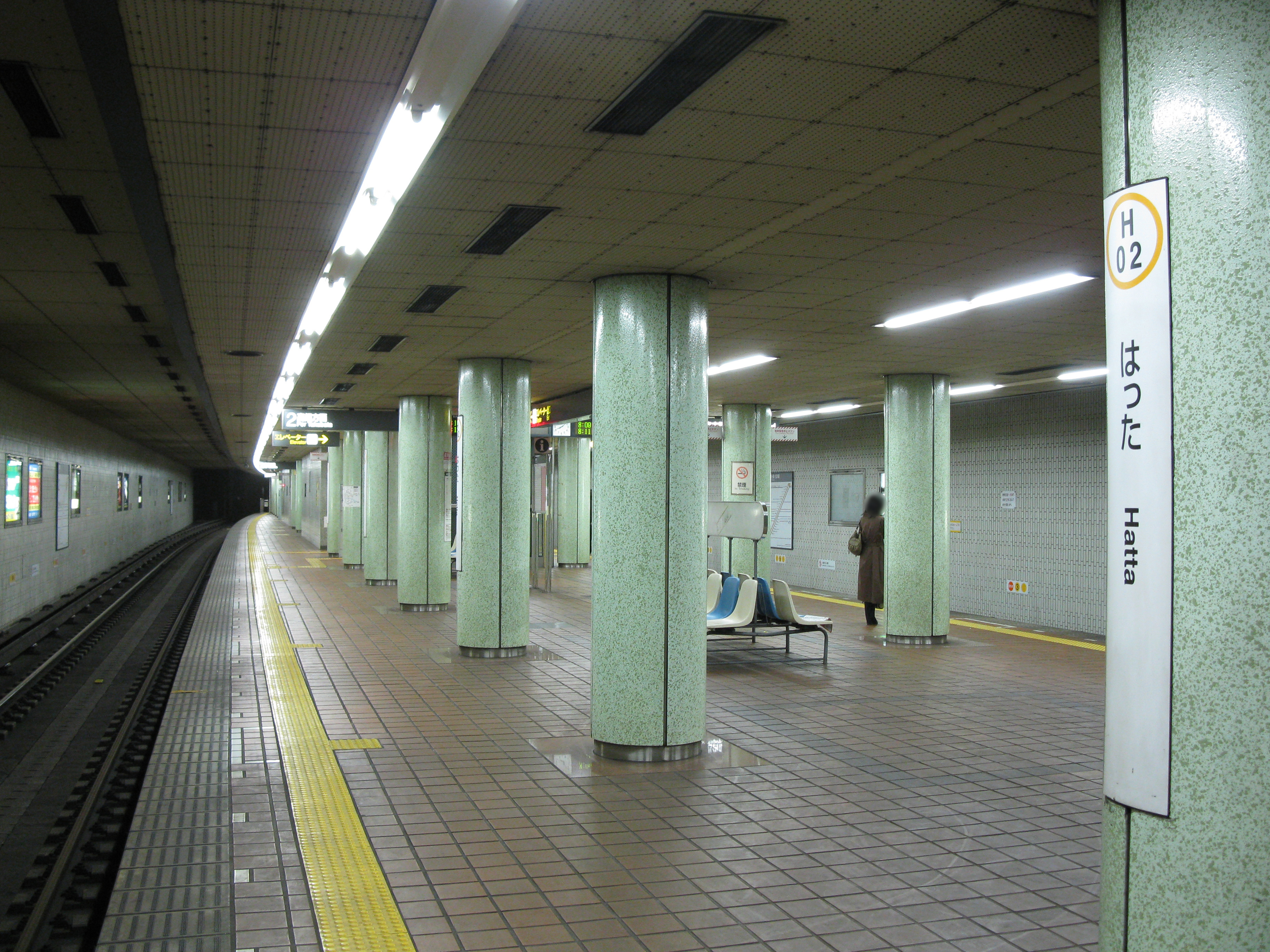 Hatta Station platform (Nagoya Municipal Subway Higashiyama Line)